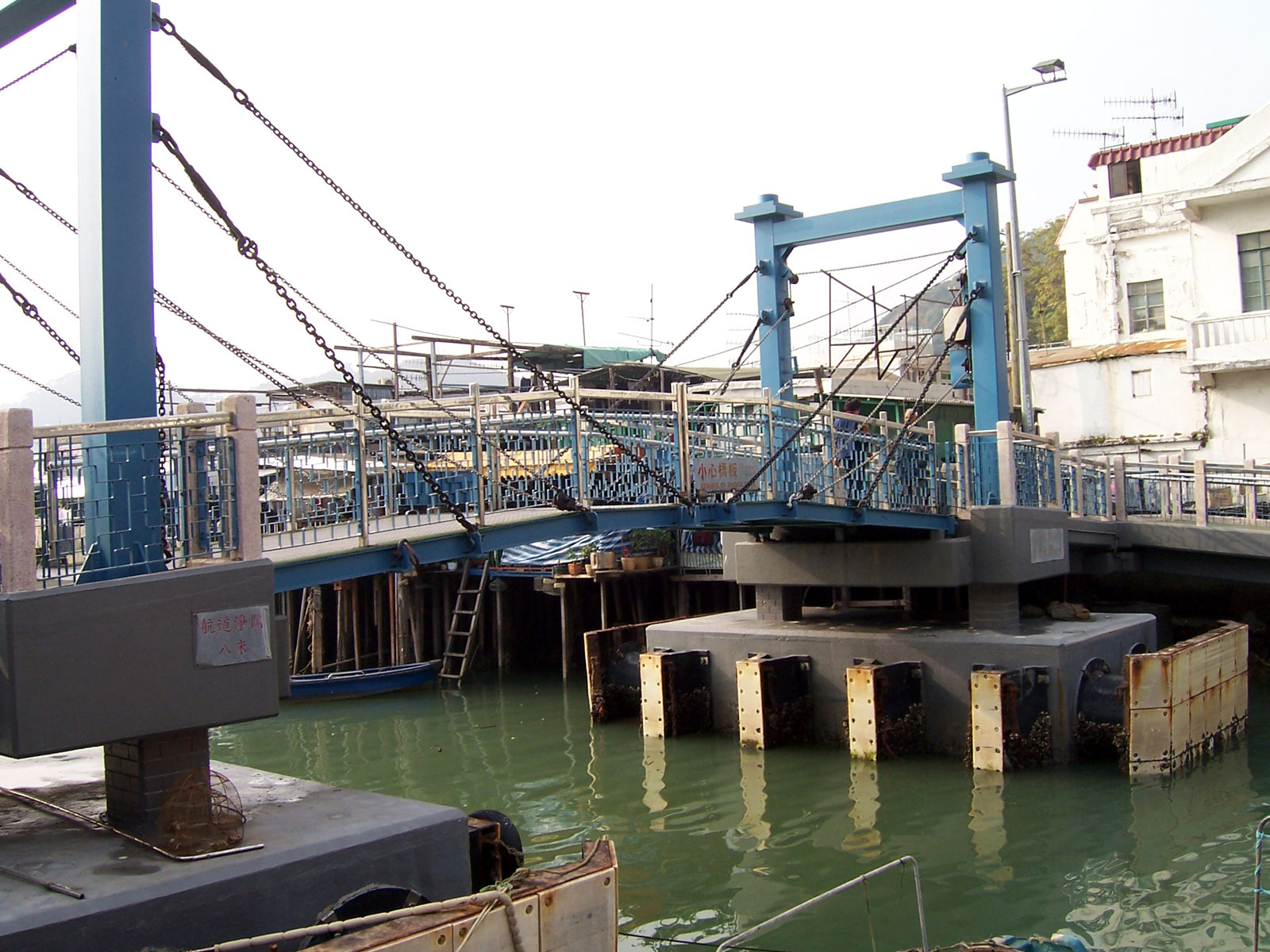 A steel bridge in Tai O. Taken by Enoch Lau on 31 December 2005. As a courtesy, please let me know if you alter this image or this image description page. Original filename was 100_1036.JPG.